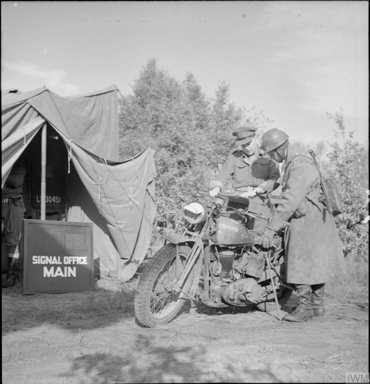 The British Army in North-west Europe 1944-45 Corporal P W Collings, a Royal Corps of Signals motorcycle despatch rider with 11th Armoured Division, being briefed by Major E W Townsend, 23 October 1944.